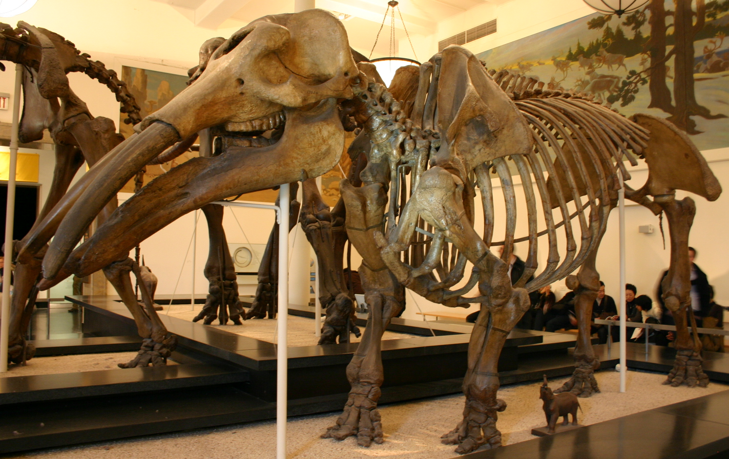 Skeleton on Gomphotherium productum